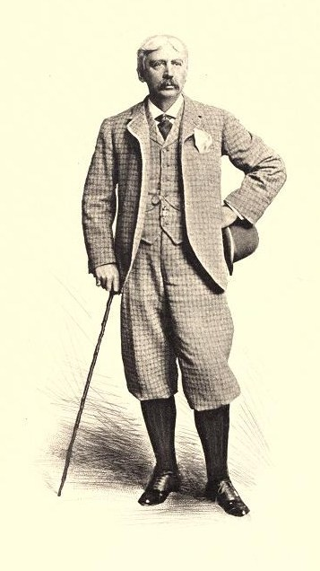 American fiction writer and poet Bret Harte, from The Writings of Bret Harte (Boston: Houghton Mifflin, 1896-1914)